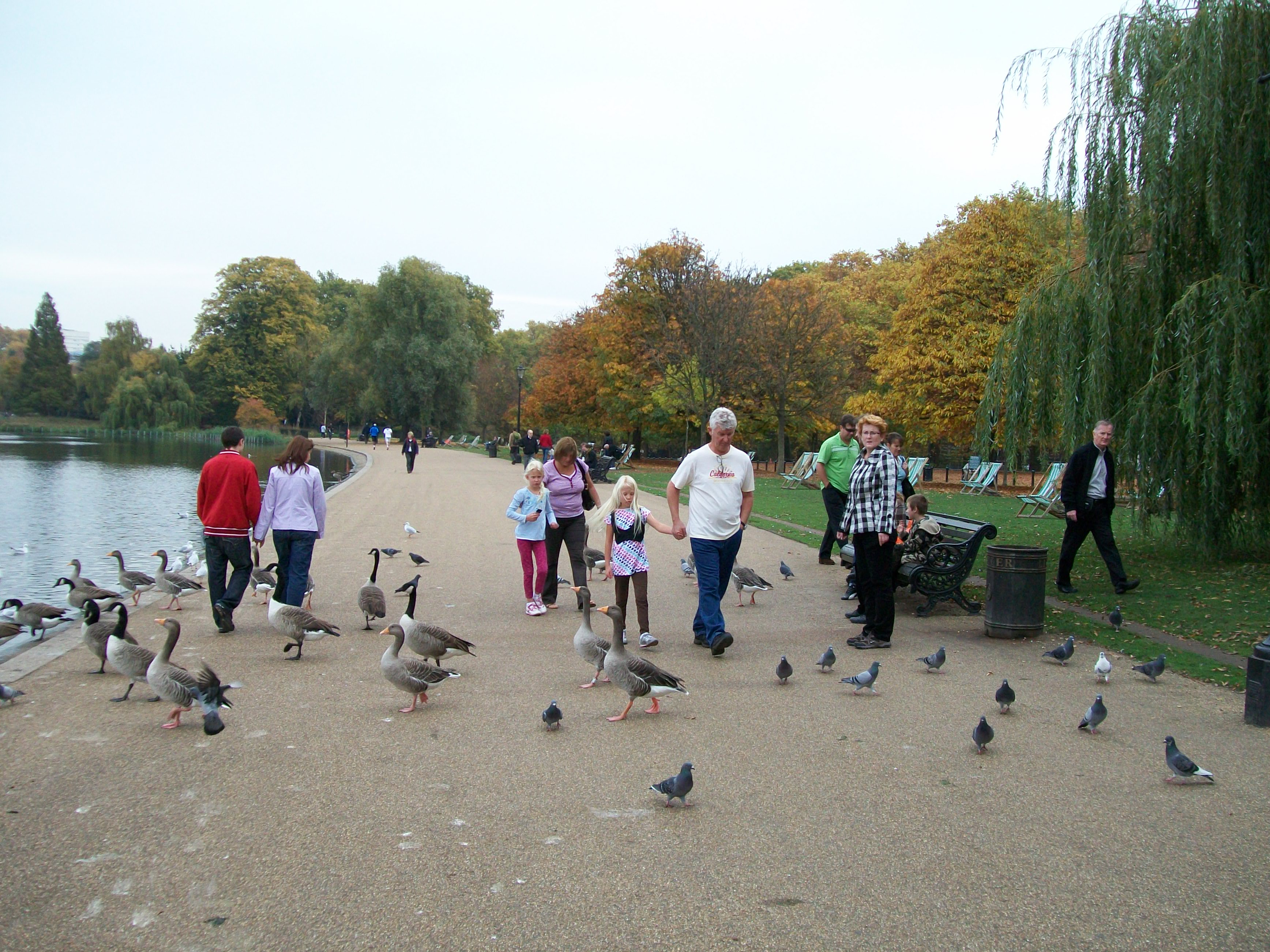 Walks in the park